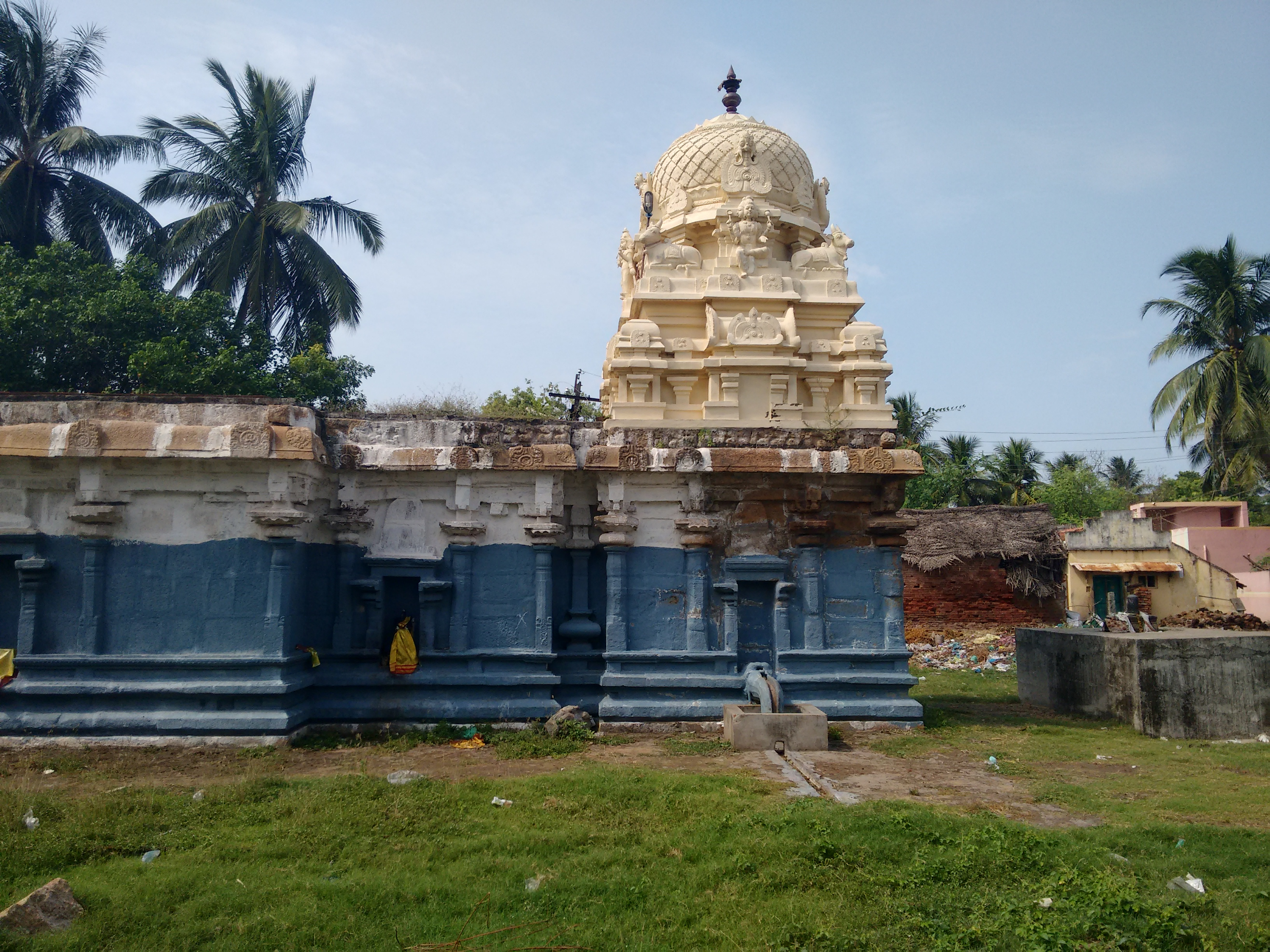 Darasuramveerabadrartemple தாராசுரம் வீரபத்திரர்கோயில்